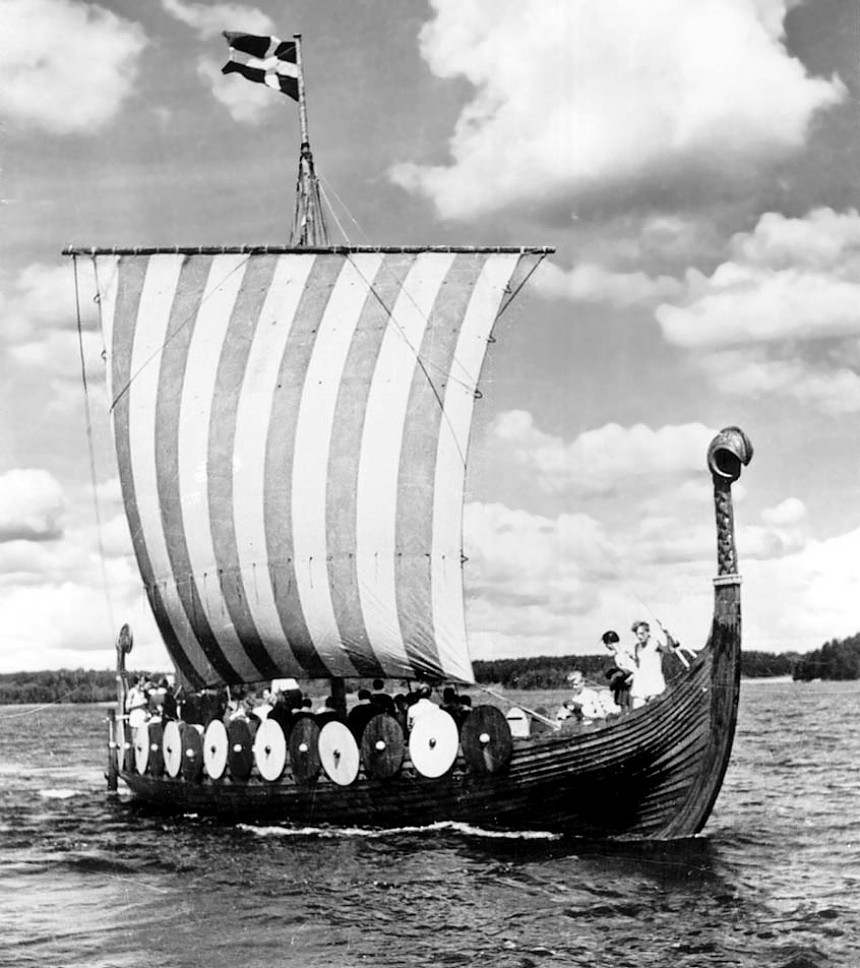 ORMEN FRISKE : Gokstad replica - 1949